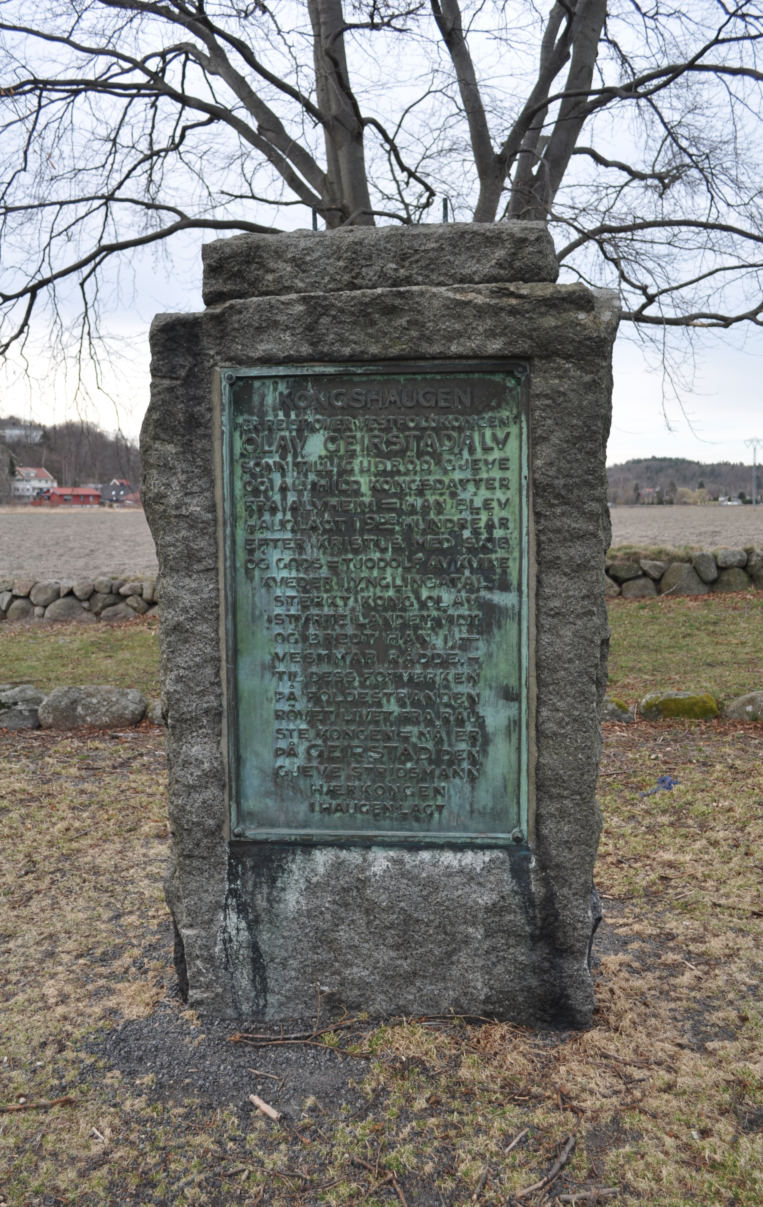 Grave site Gokstadhaugen in Sandefjord